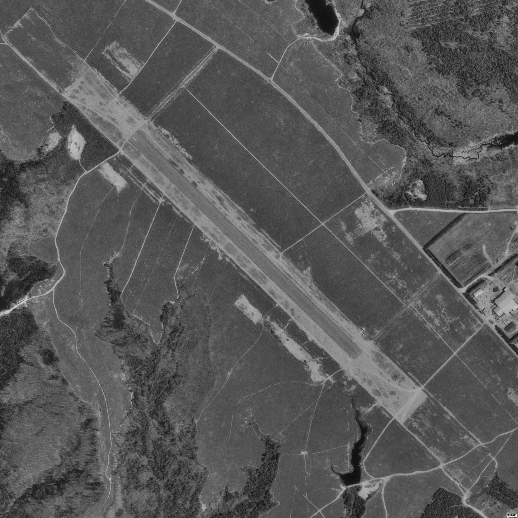 USGS digital orthophoto of Deblois Flight Strip (FAA: 43B) in Deblois, Maine, United States.